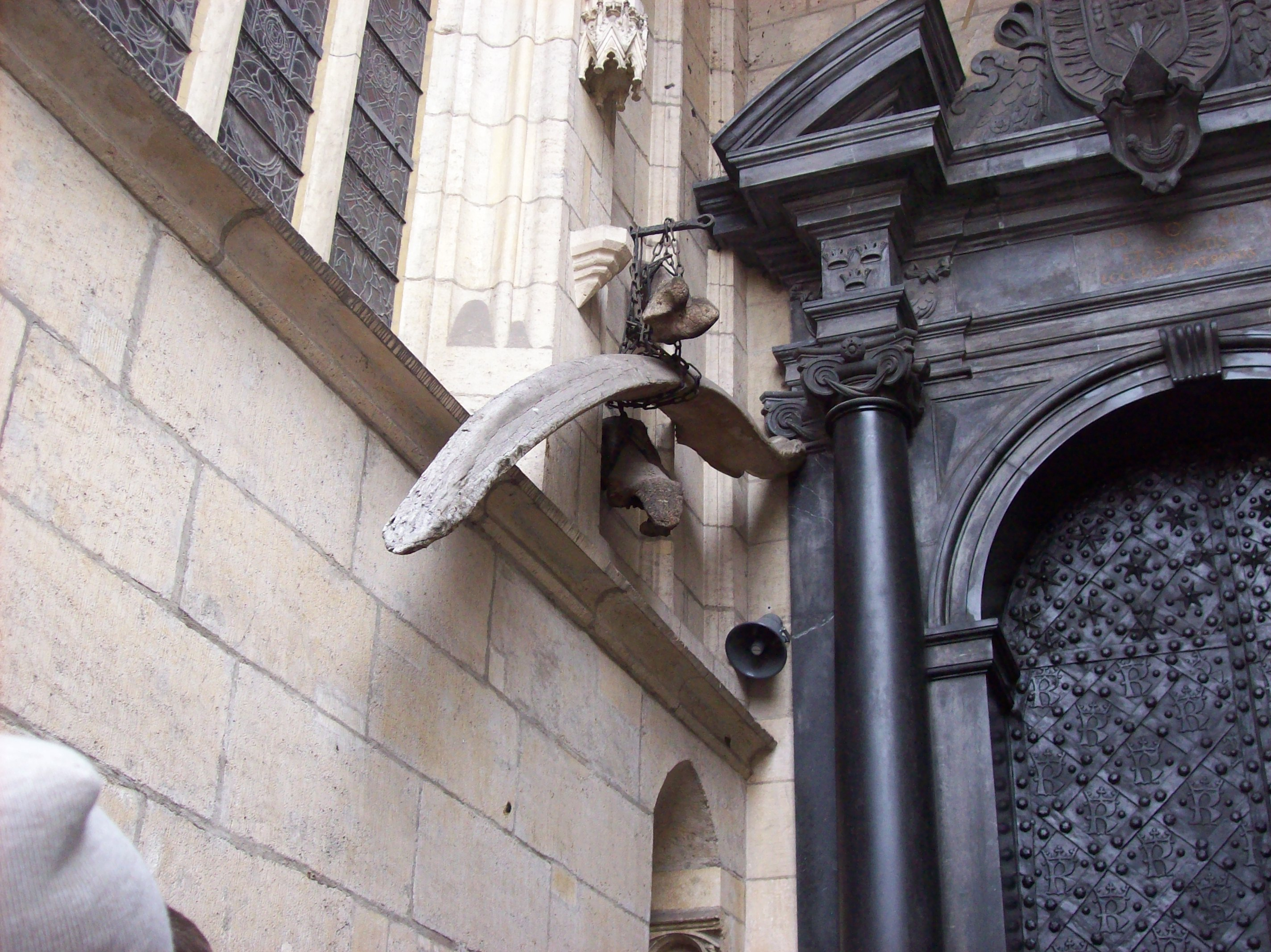 A bone of the legendary Wawel Dragon (Smok Wawelski), outside Wawel Cathedral.